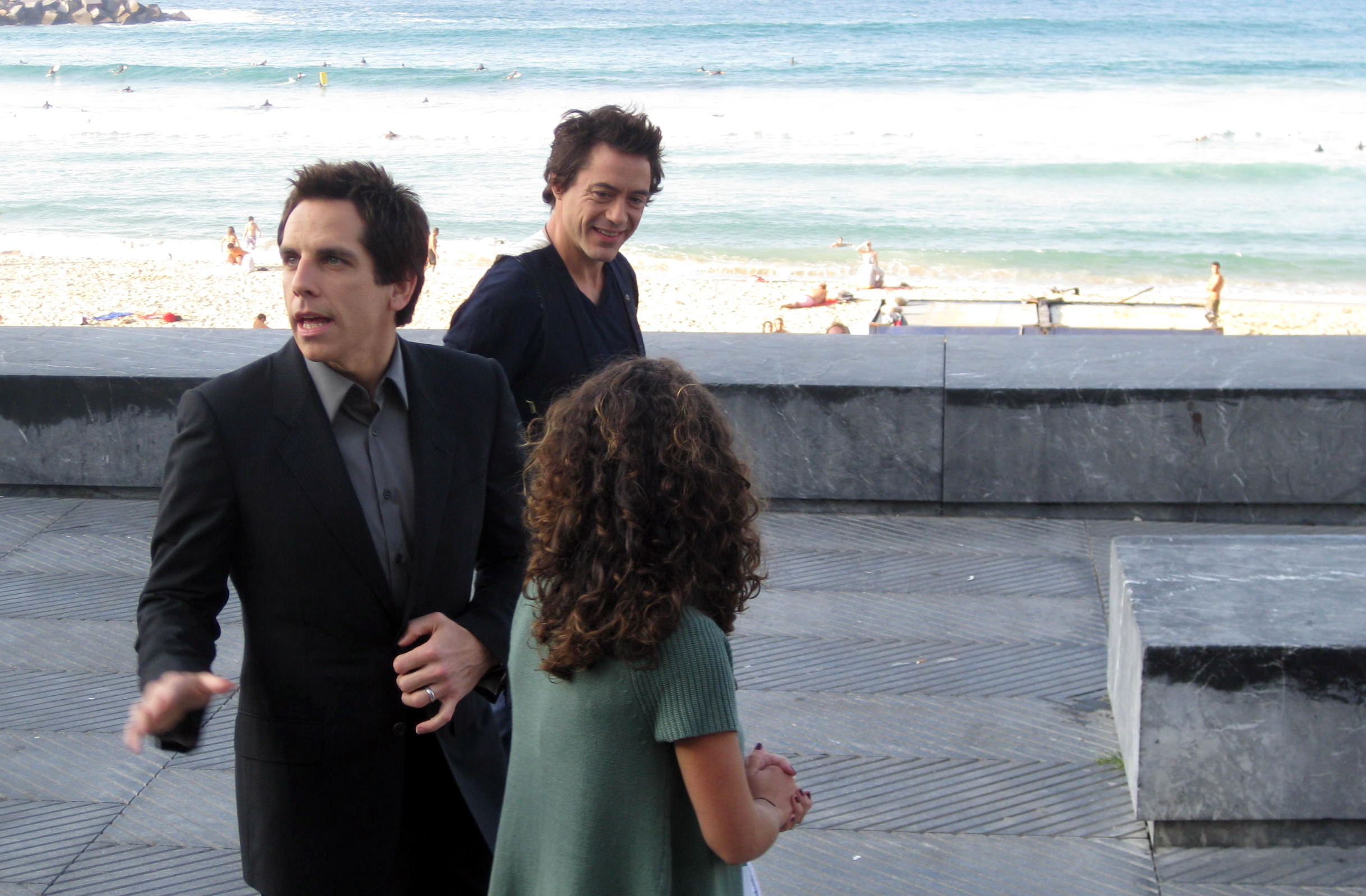 Ben Stiller together with Robert Downey Jr. at San Sebastian Film Festival 2008 presenting his movie "Tropic Thunder".